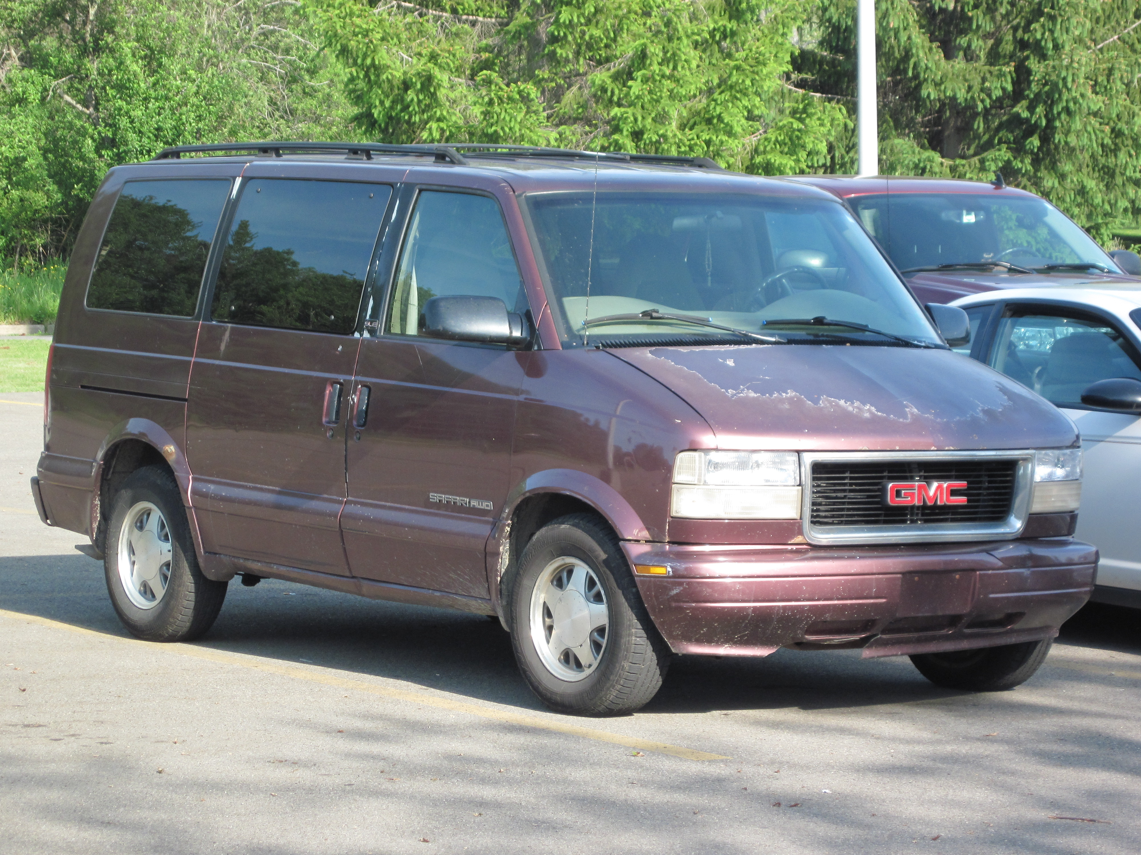 A brown GMC Safari photographed at Jamestown Community College.